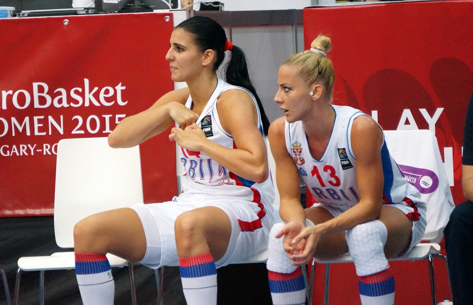 Milica (left) and Ana Dabović, playing for Serbian national basketball team.